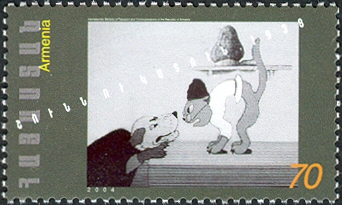 Stamp of Armenia